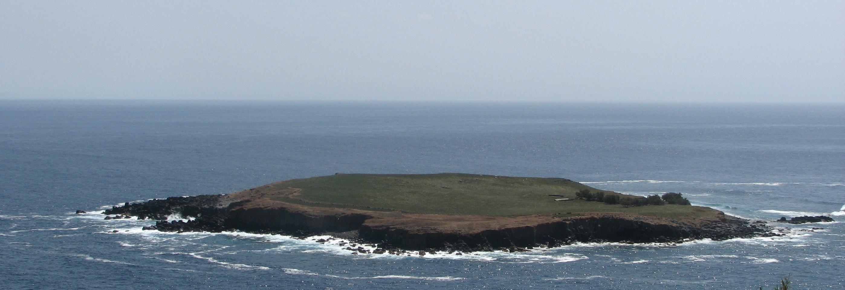 The islet of Topo, off the southeastern coast of the island of São Jorge, Azores (as seen from Ponta do Topo)